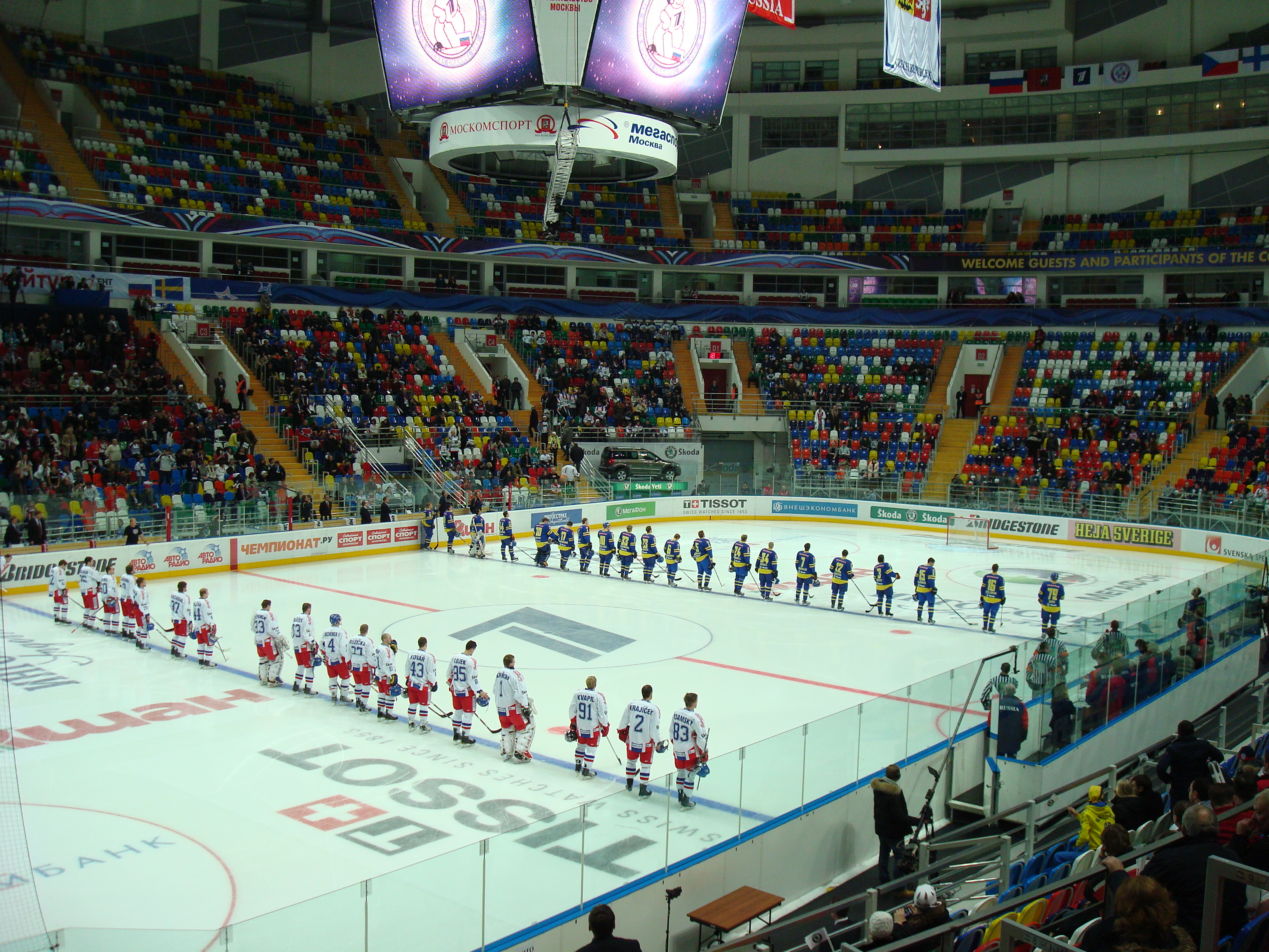 Last game at First Channel Cup 2010 in Moscow. Megasport stadium. SWE-CZE